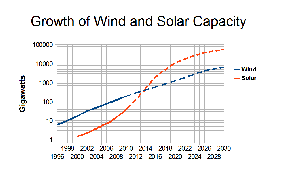 Projected growth of wind power and solar (CSP and photovoltaics), based on history through 2011